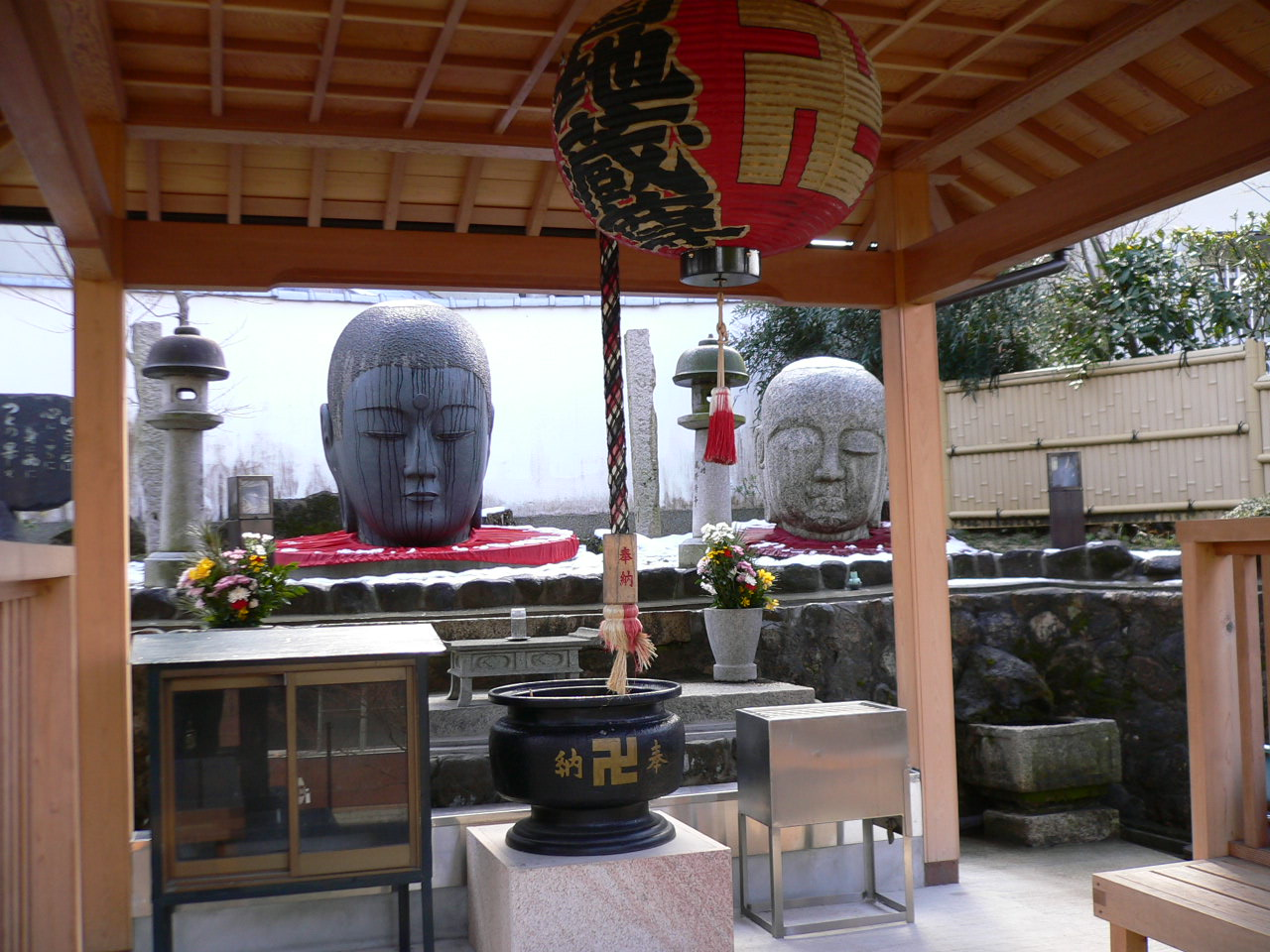 Jizou at Kohama town in Takarazuka, Hyōgo, Japan.